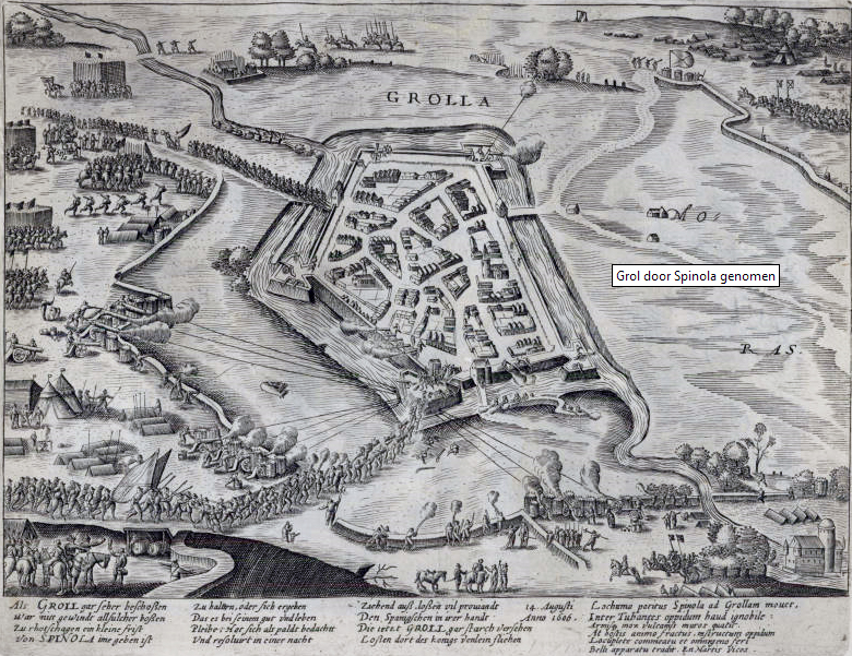 The capture of Groenlo by Spinol in 1606. Effort at the text: "Als Groll gar seher beschosen war nitt gewendt allsulcher bosen zu rhotschagen ein kleine frist von Spinola ime geben ist. Zu haltern, oder sich ergeben Das es bei seinem gut und leben Pleibe hat sich als paldt bedachtt und resolurt in eine nacht Zachend aus dossen vil proviandt Den Spanischen in irer handt Die ... Groll gar starch versehen Lossen dort des konigs verlein fliehen Lochume peritus Spinola ad Grollam ...et Inter Tubantes oppidum haud ignobile ..."